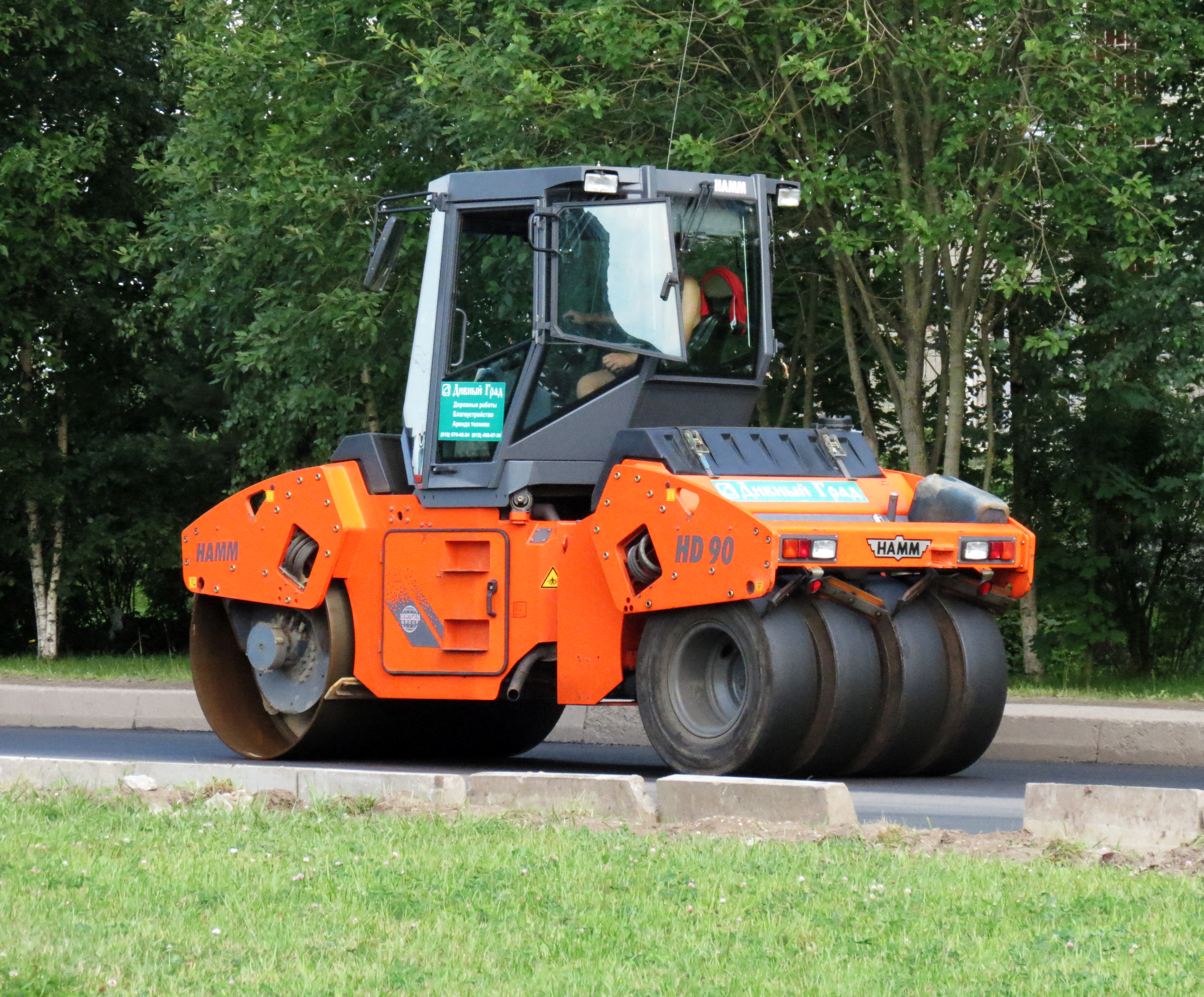 Road roller Hamm HD 90. Gatchina, Russia